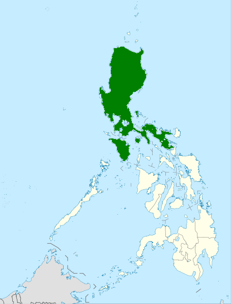 Distribution of the Philippine cobra (Naja philippinensis).